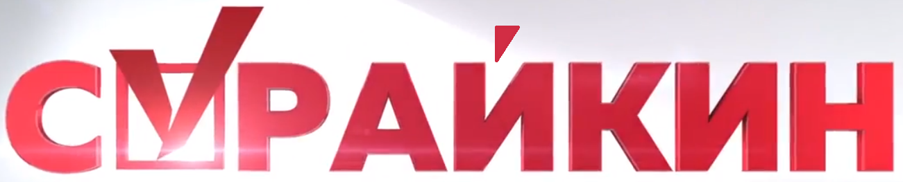 Official logo of the Maxim Suraykin presidential campaign, 2018